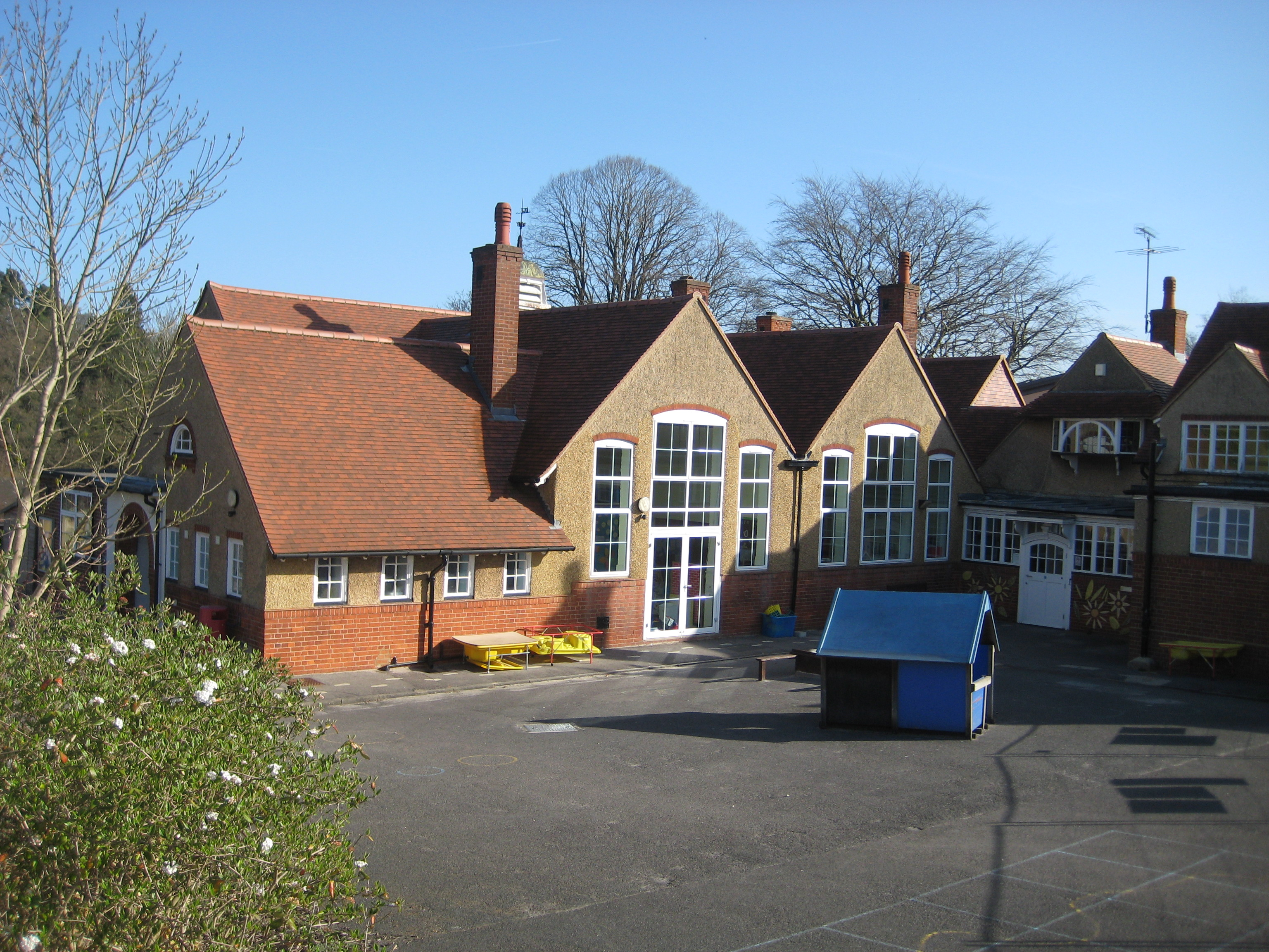 View of the Bourne site of South Farnham School, formerly the Bourne Infants School, Farnham, Surrey.